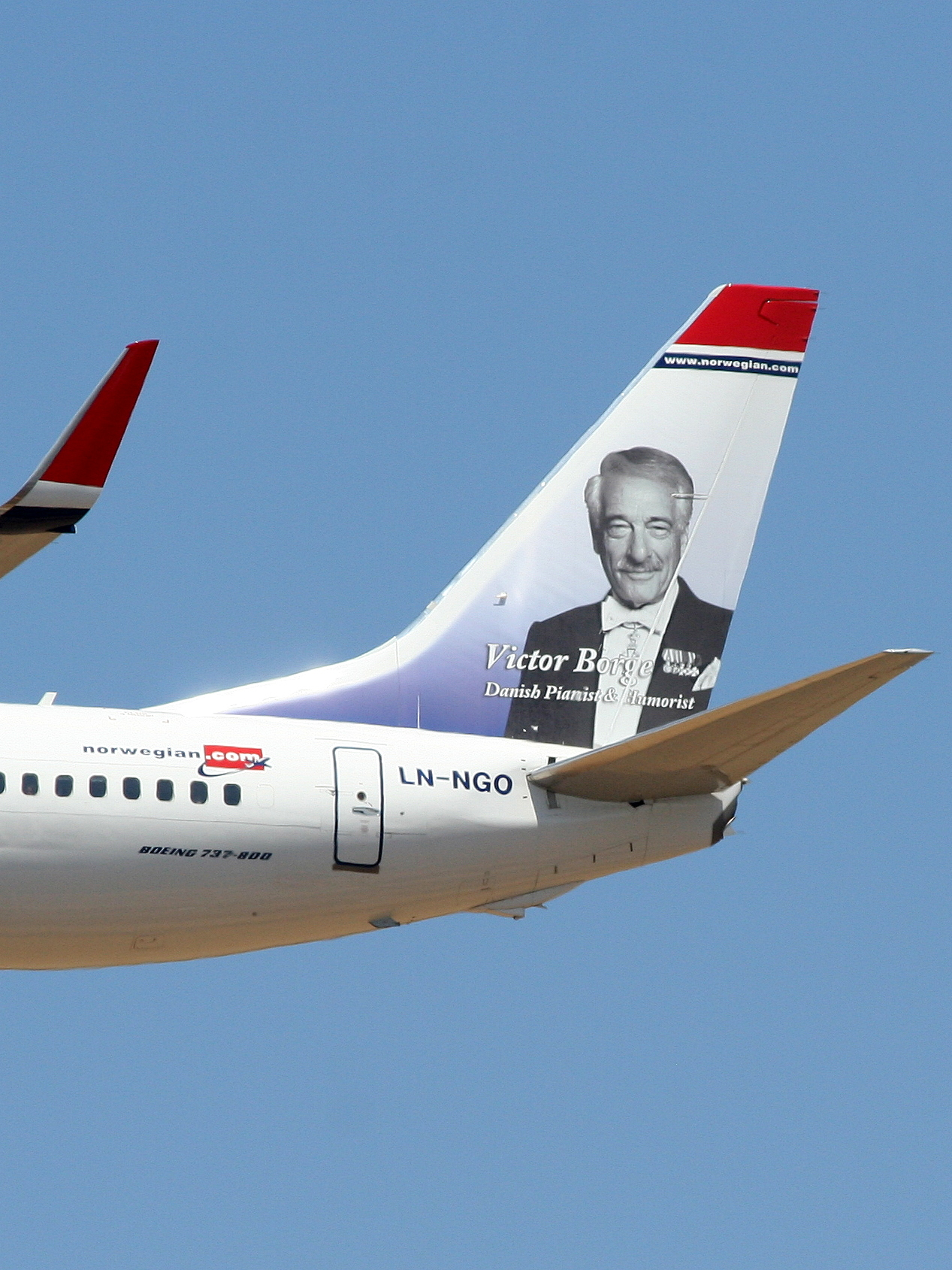 LN-NGO honoring Victor Borge landing at Ben Gurion International airport.